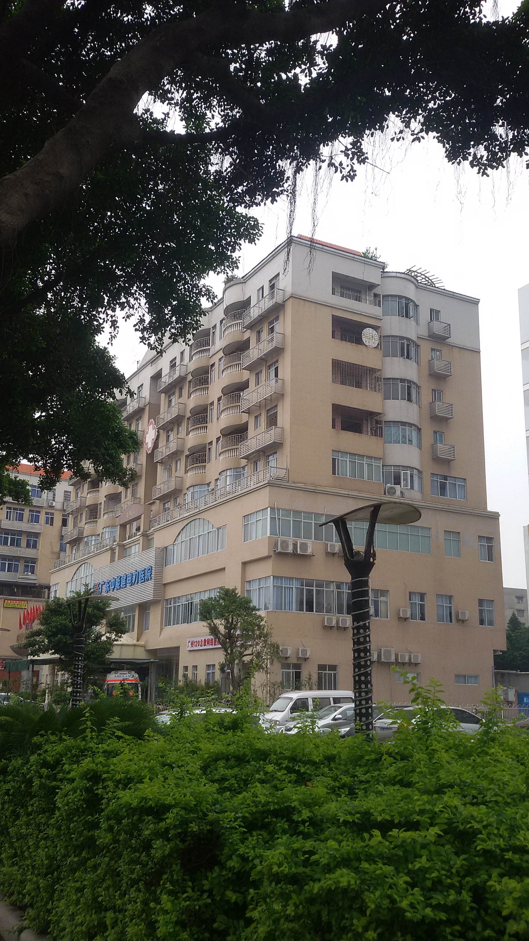 Guangdong China Energy Construction Electronical Hospital